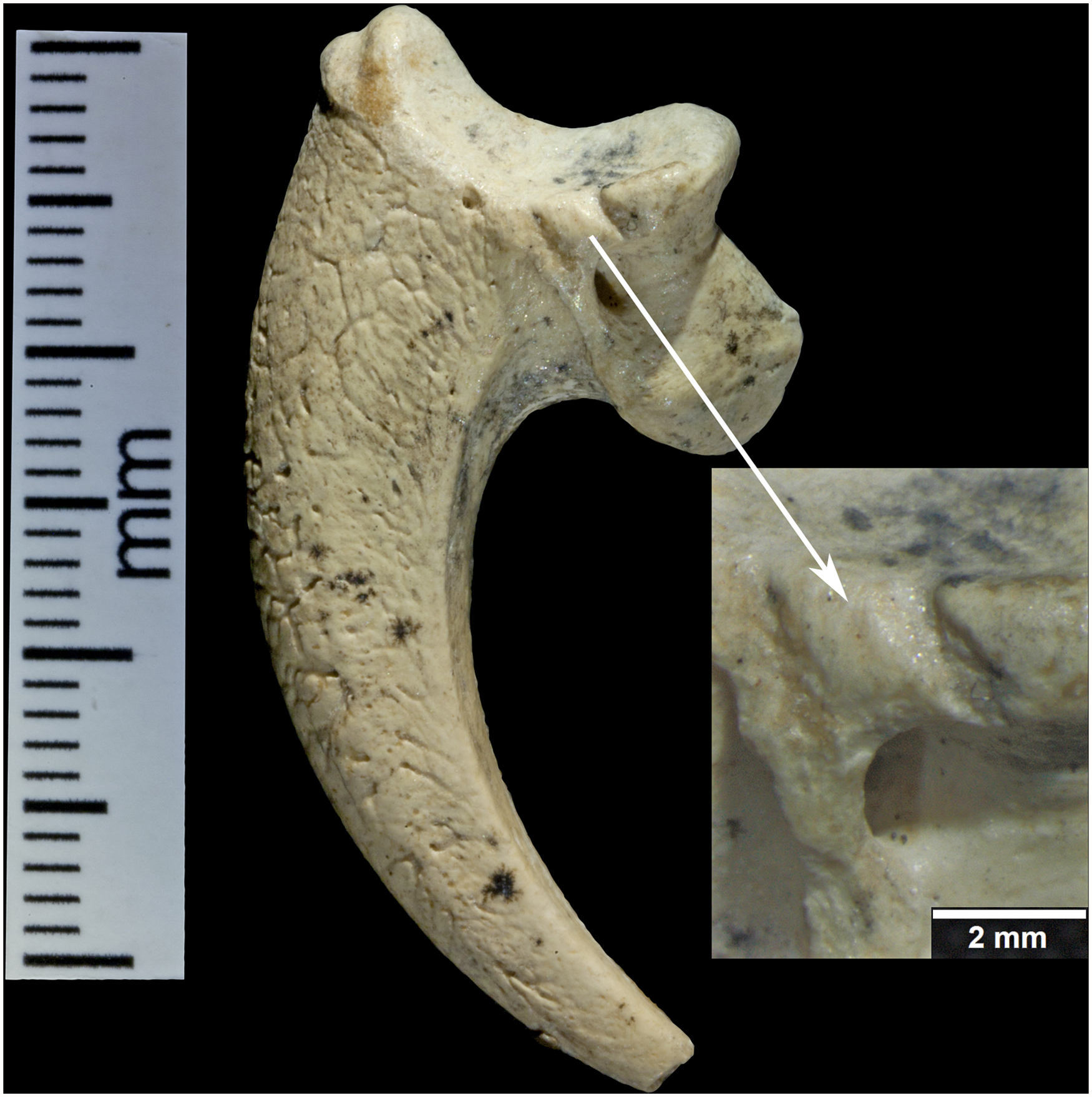 Possible Neandertal Jewelry White-Tailed Eagle Claws with striations at the Neanderthal site of Krapina, Crimea, 130,000 BP